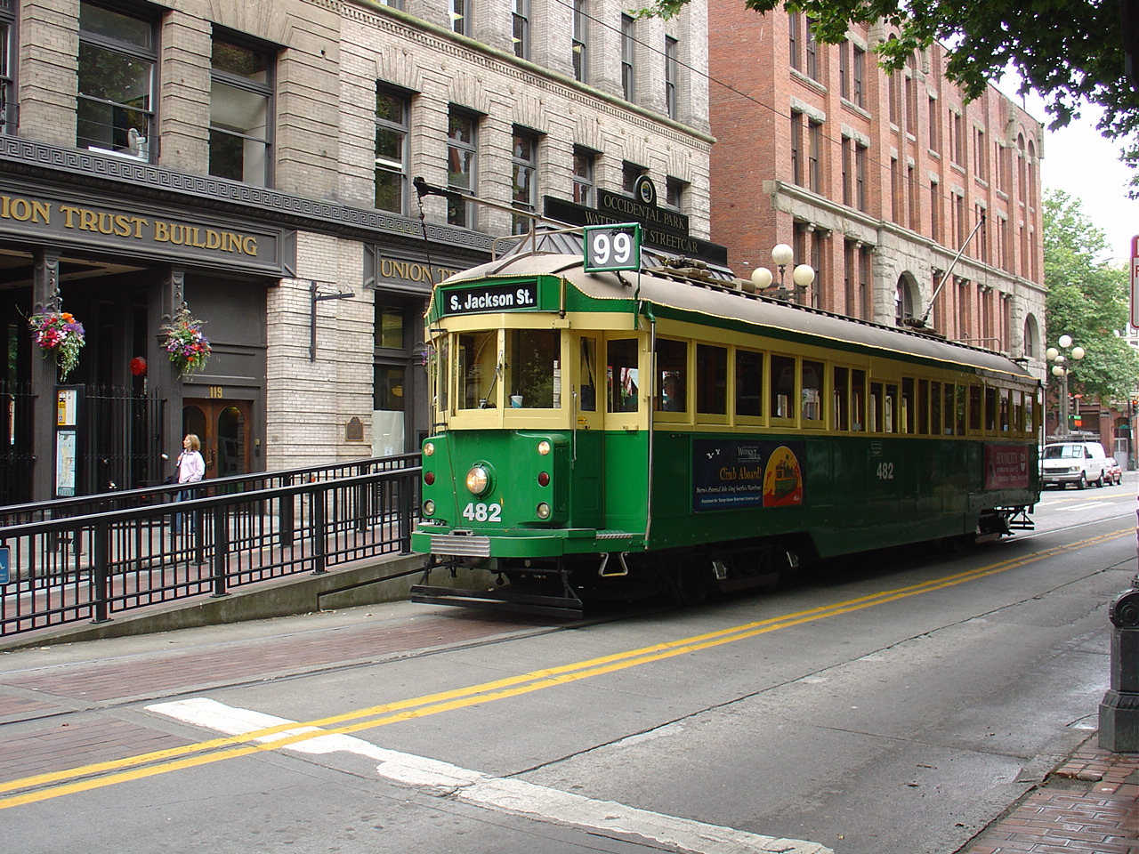 Seattle Waterfront Streetcar at Occidental Park.